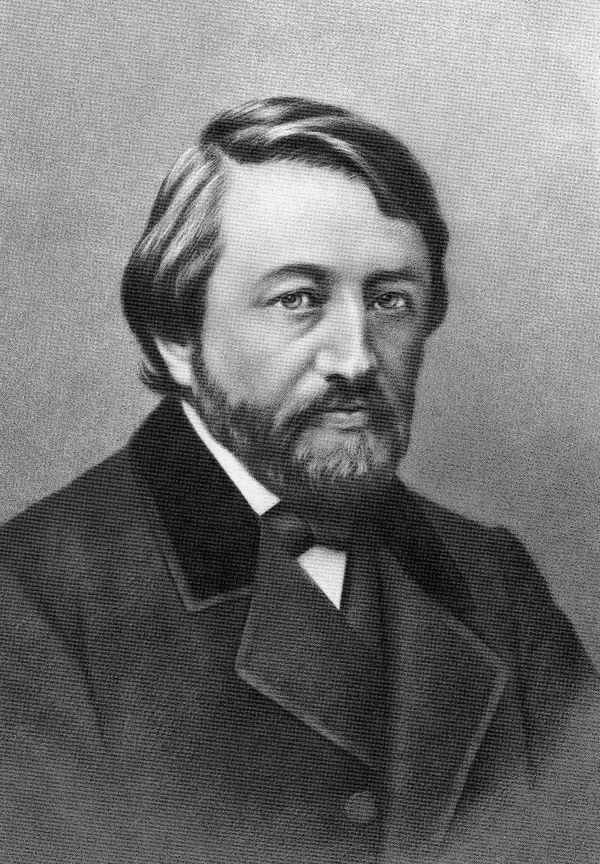 Carl Ludwig Deffner, Lithographie